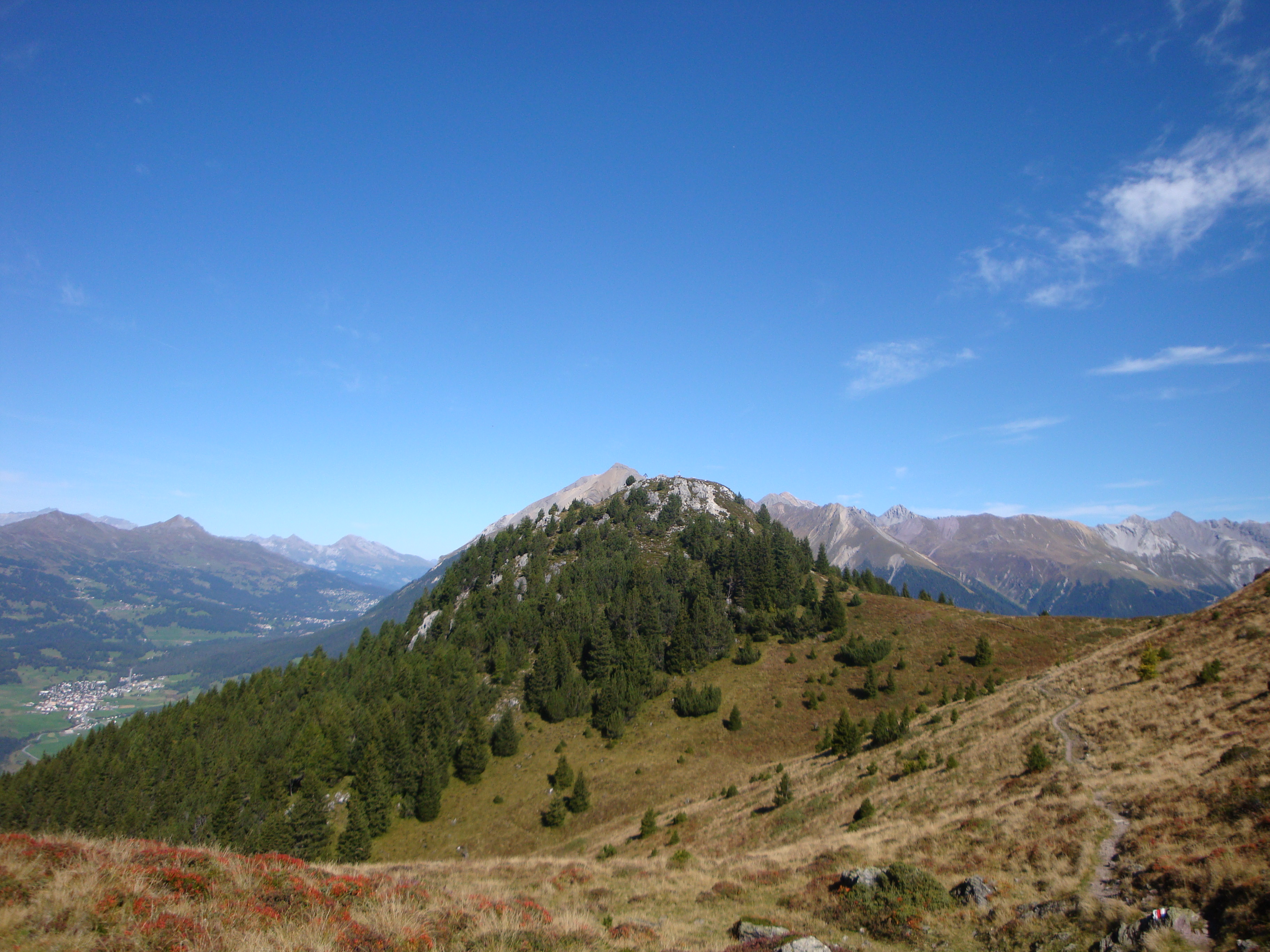 Motta Palousa from Uigls, Tiefencastel, Cunter, Grison, Switzerland